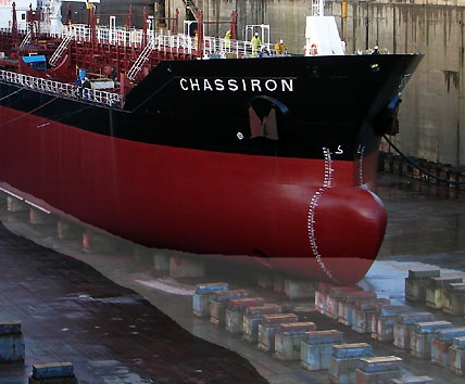 cropped version of Image: Chassiron in dry dock.jpg for Wiki: "Pallen im Trockendock"